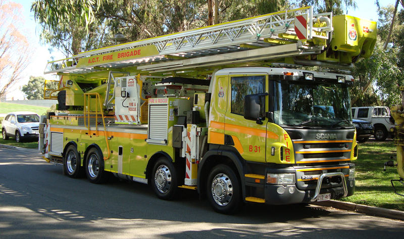 ACT Fire Brigade Scania P380 Bronto Skylift, 44 m.